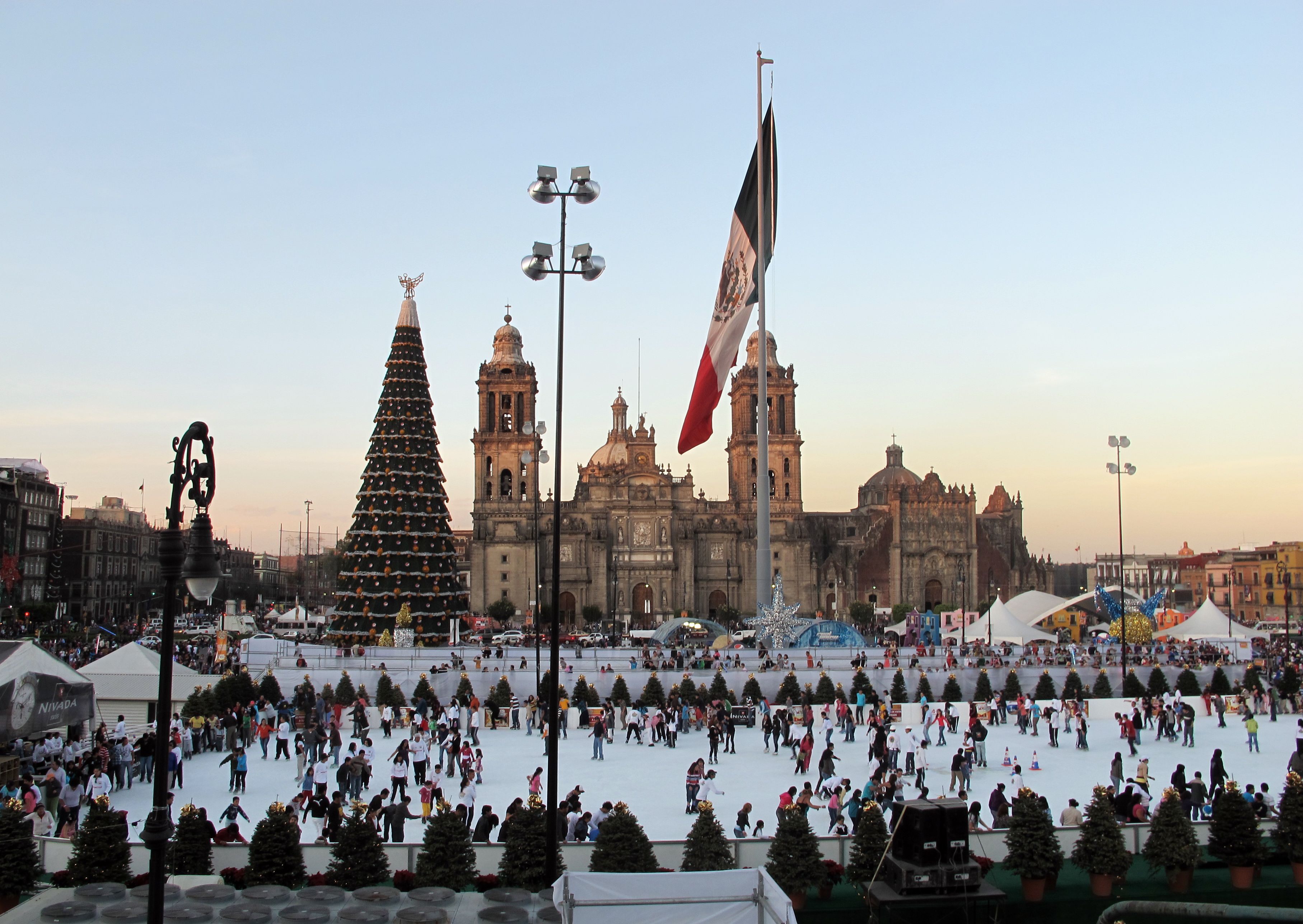 The skate rink on Zócalo in Mexico City in Christmas 2011